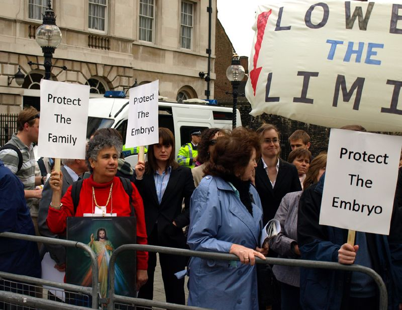 Pro-choicers and pro-lifers demonstrated in Parliament Square, London, as the House of Commons debated the Embryology Bill (focusing on whether the abortion time limit should be lowered from 24 weeks) on Tuesday May 20 2008. MPs voted to keep the 24-week limit.